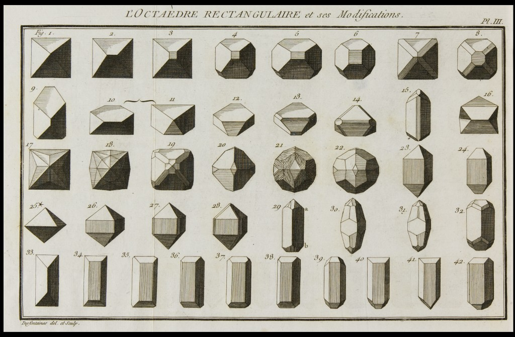 Depiction of bisque-fired crystal models in Romé de l'Isle, Cristallographie (1783). Collection Teylers Museum, Haarlem (the Netherlands)